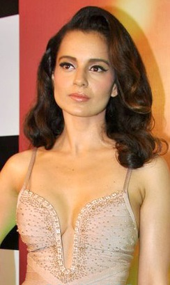 Kangana Ranaut at QUEEN success party